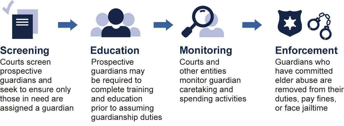 This image is excerpted from a U.S. GAO report: ELDER ABUSE: The Extent of Abuse by Guardians Is Unknown, but Some Measures Exist to Help Protect Older Adults